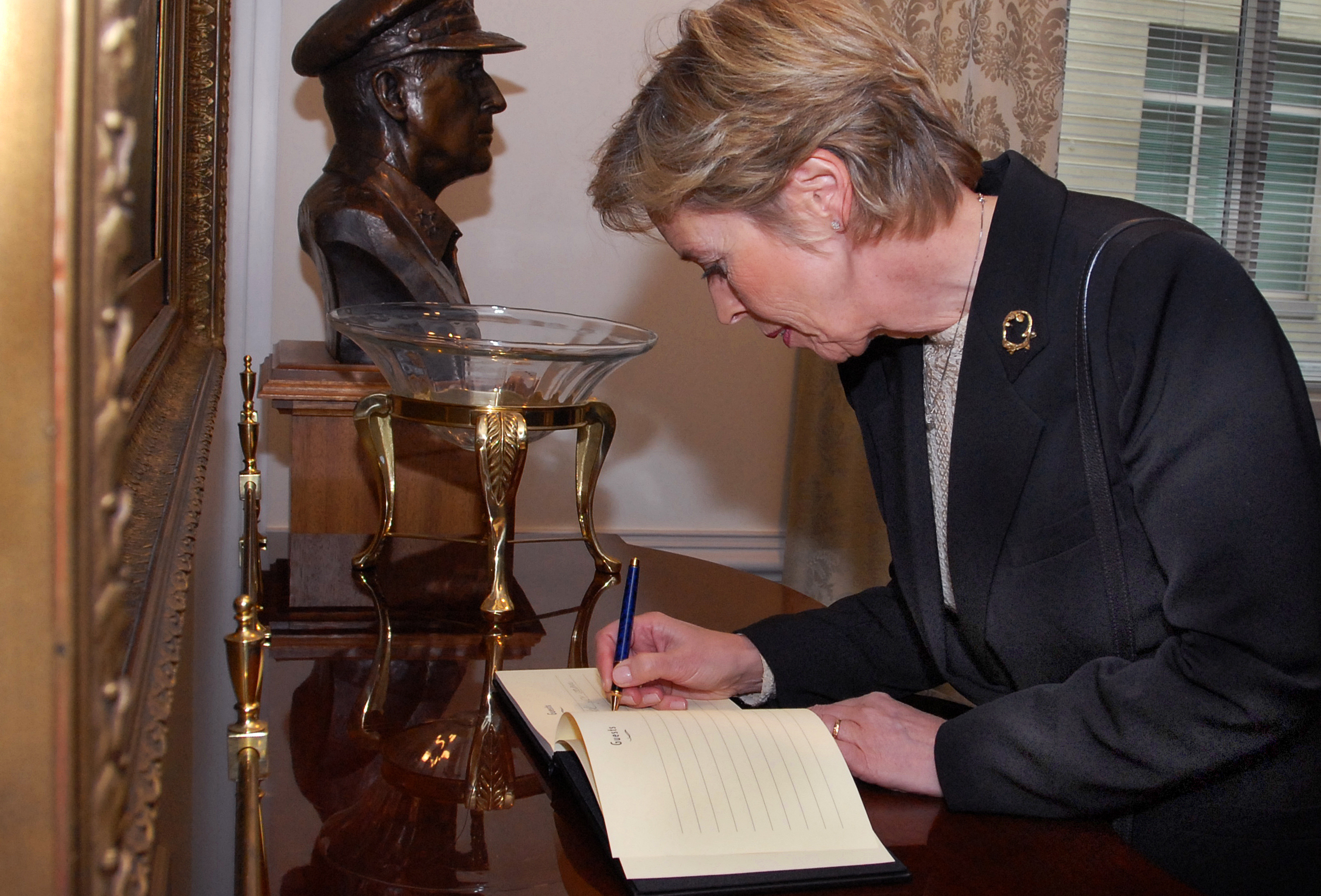 Norwegian Minister of Defense Anne-Grete Strøm-Erichsen signs a guest book before a lunchean meeting with Secretary of Defense Robert M. Gates at the Pentagon